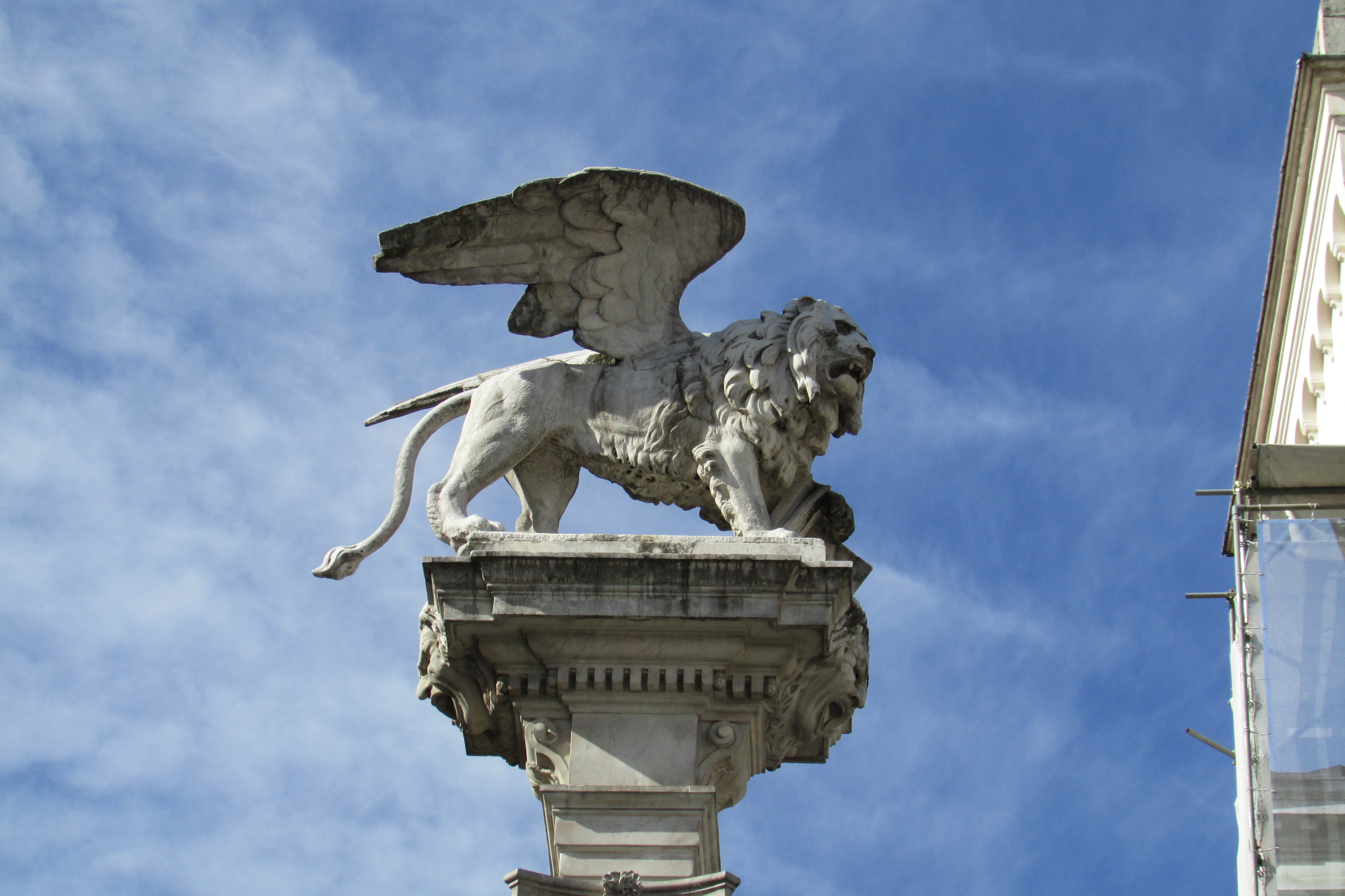 Winged Lion of St. Marks, a symbol of Venetian overlords on a pillar in the Piazza dei Signori, Padua, Italy.